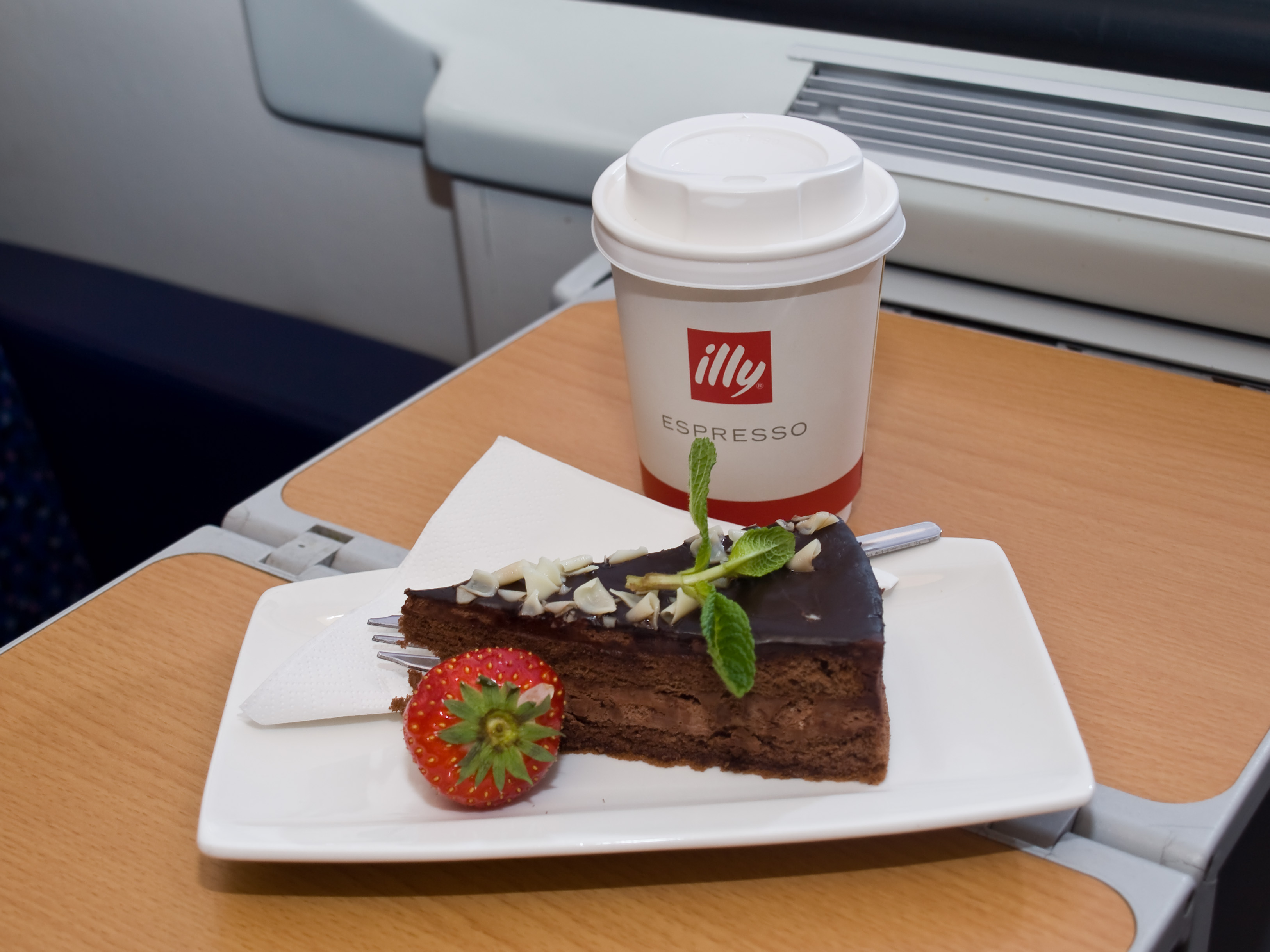 Train of RegioJet at Praha-Smíchov, severní nástupiště Tato série fotografií vznikla za laskavého svolení společnosti Student Agency – RegioJet